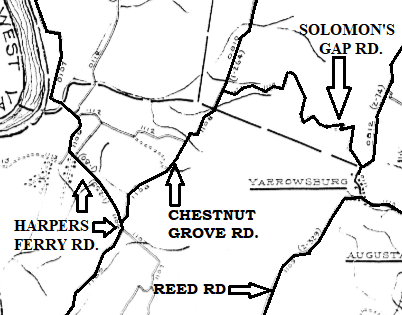 Taken from a 1936 Washington County roads map, the former road through Solomon's Gap is clearly noted.